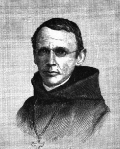 Fintan Mundwiler (12 July 1835 at Dietikon in Switzerland – 14 February 1898 at St. Meinrad's Abbey)